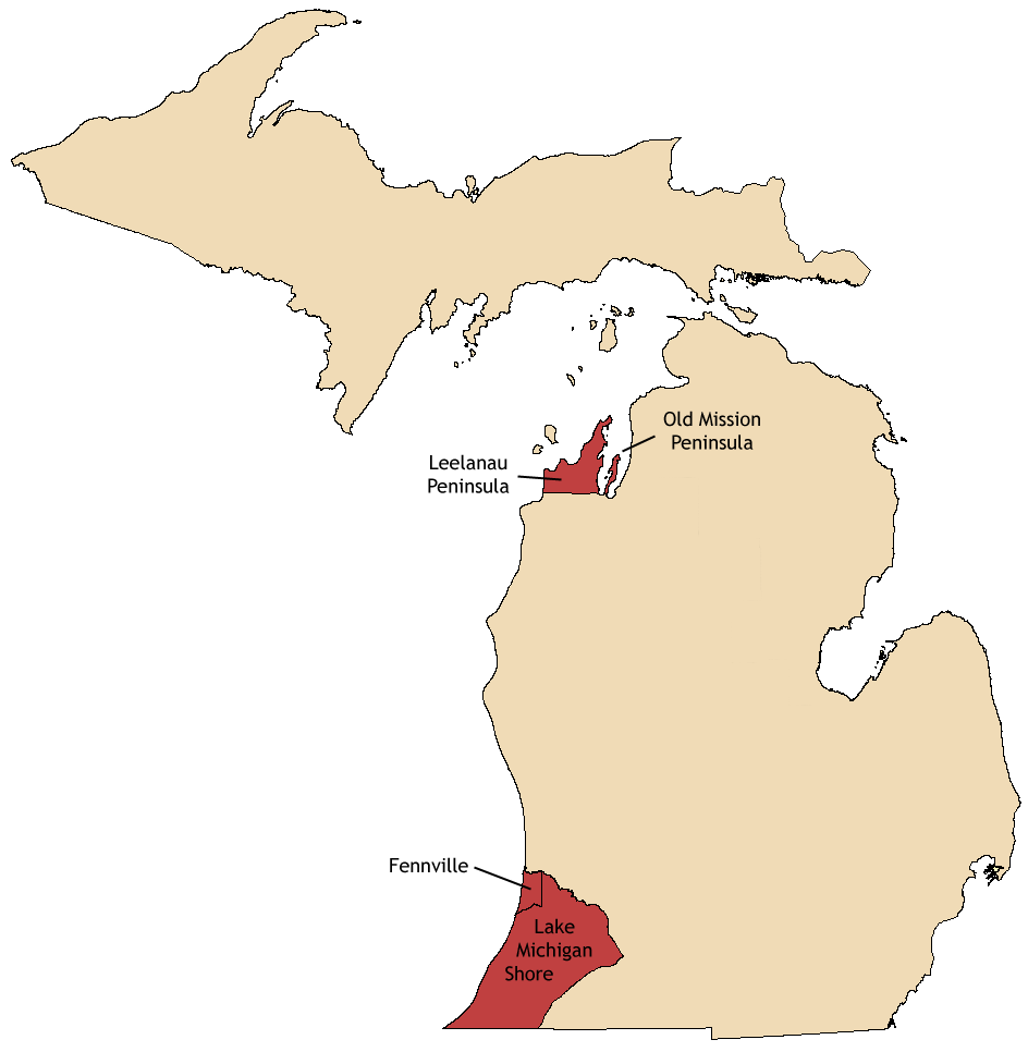 Map of the four American Viticultural Areas (AVAs) of Michigan